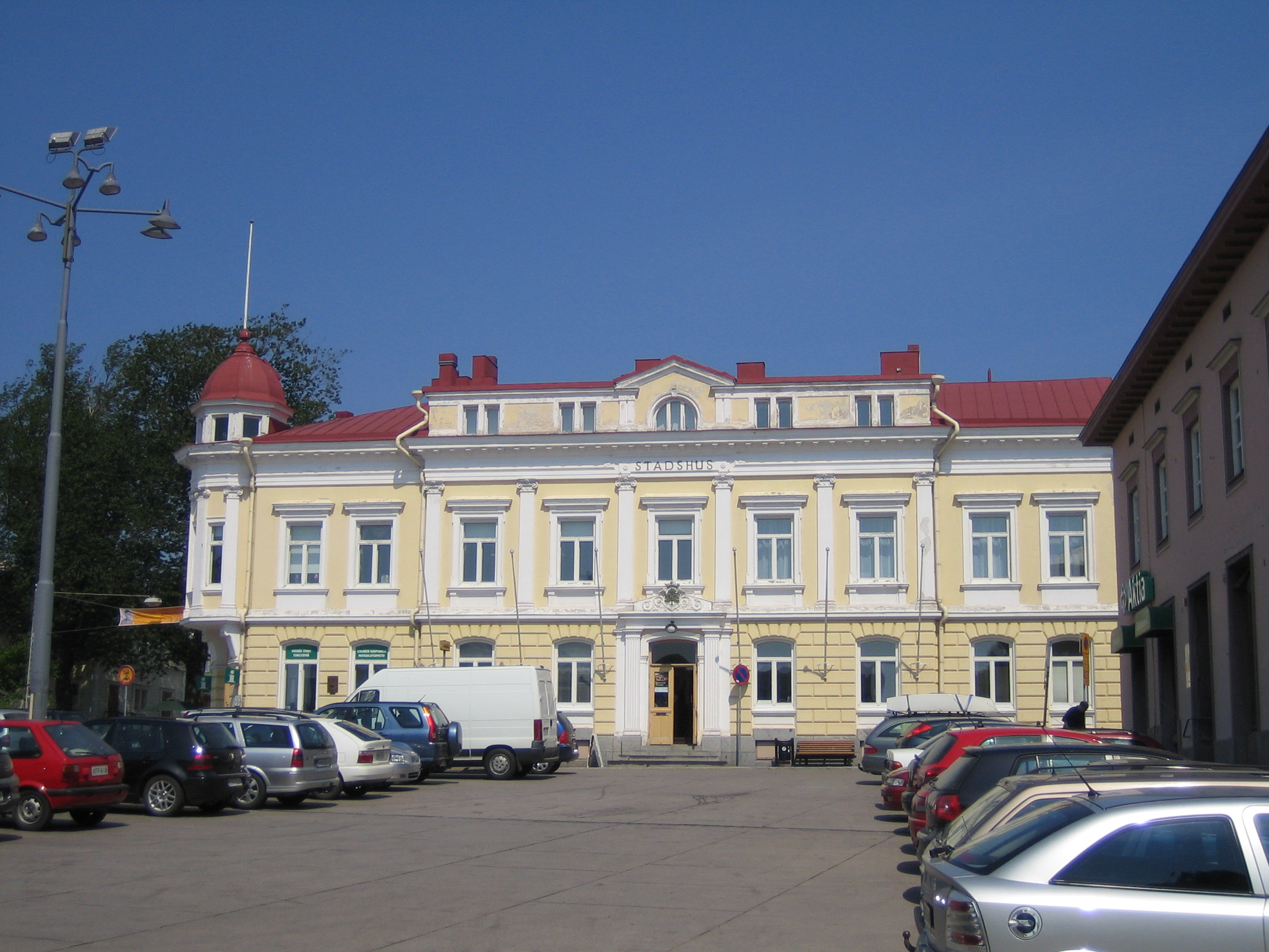 Ekenäs town hall in Ekenäs, Finland.